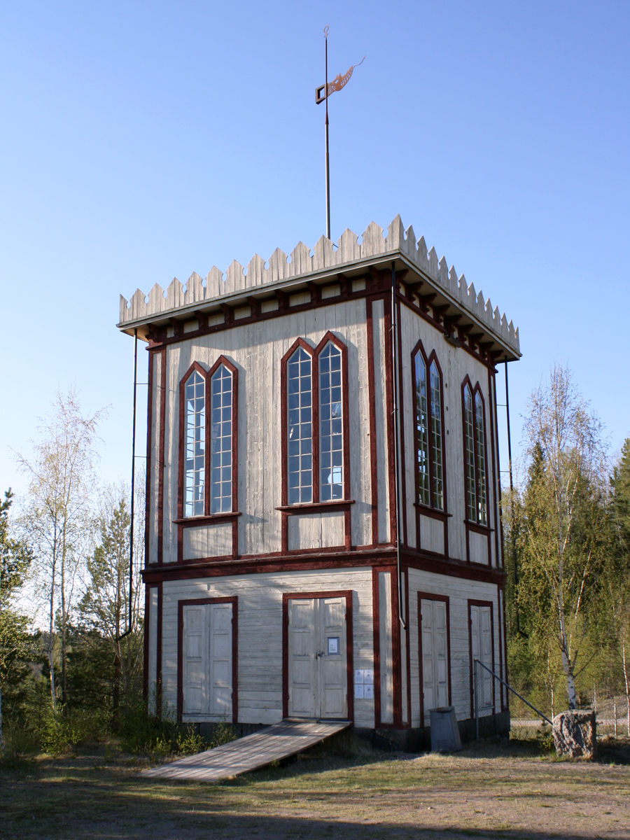 Mining headframe in Bersbo.